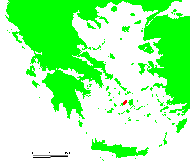 greece paros island